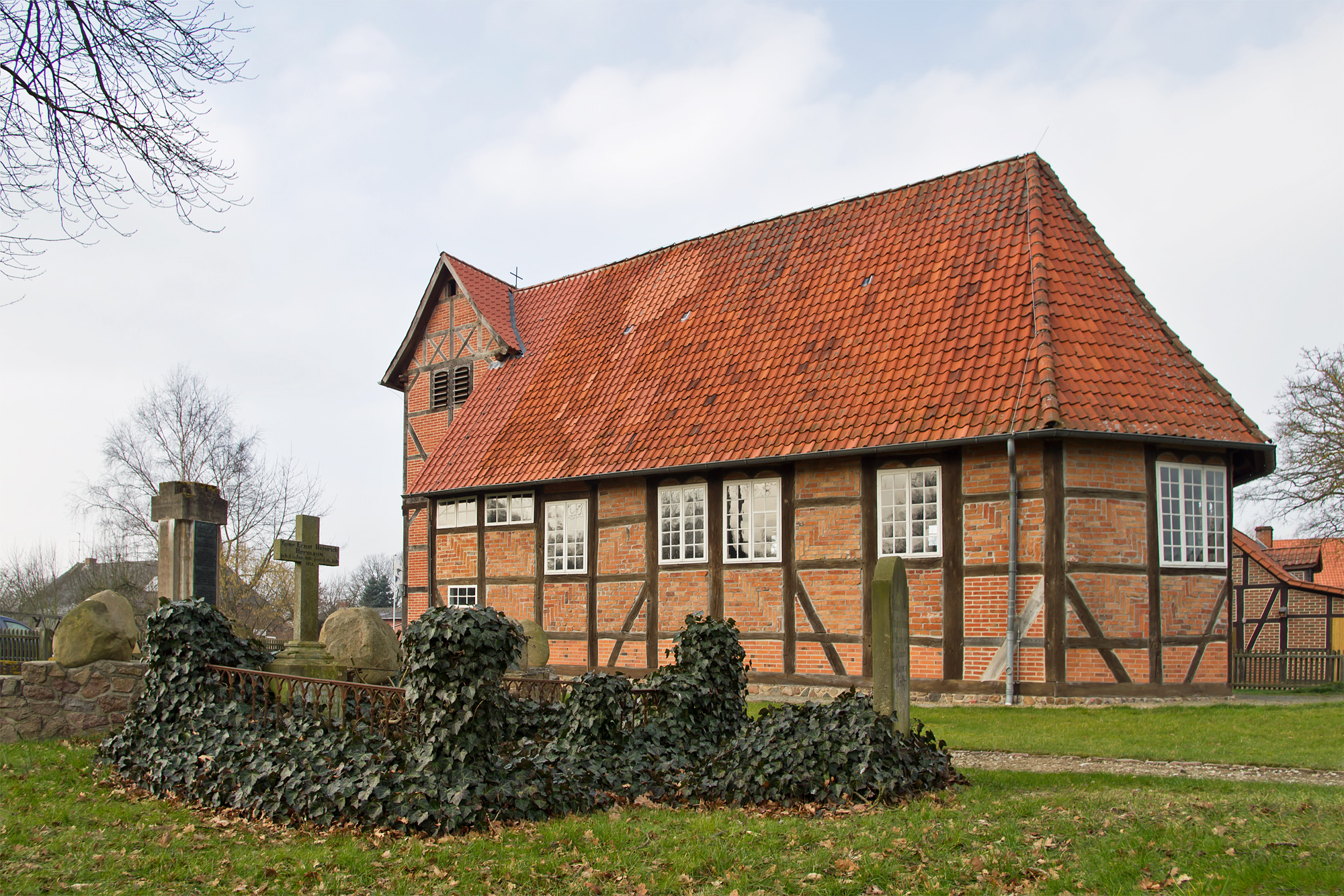 Church and churchyard in the village Damnatz (district Lüchow-Dannenberg, northern Germany).